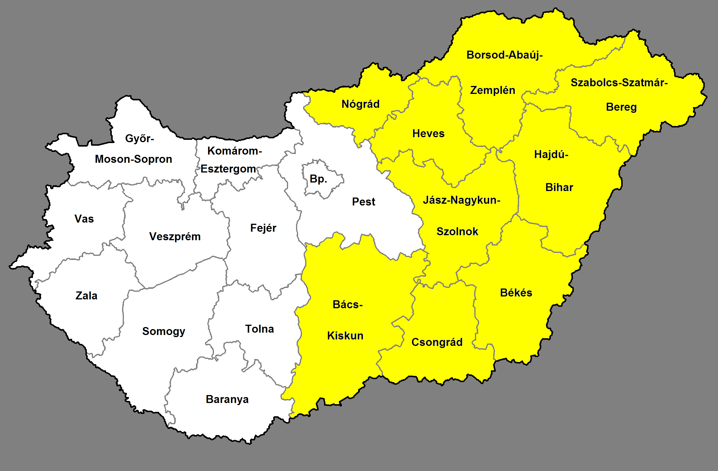 Hungary - NUTS1 - Groups of Regions - Grande Pianura e Nord (Alföld és Észak)